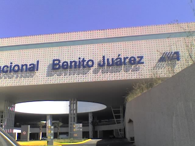 View of Mexico City Intl. Airport Terminal 2.